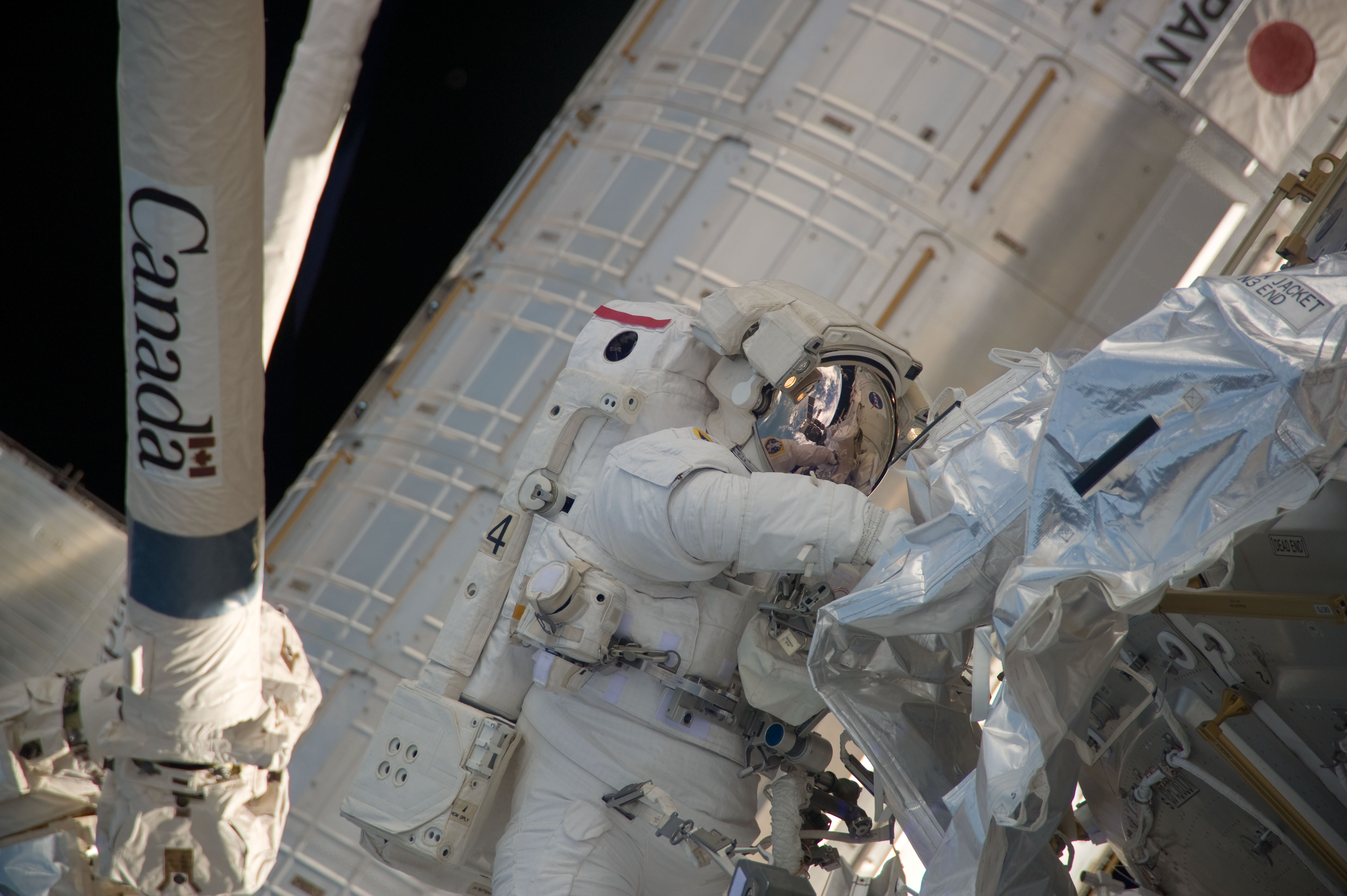 NASA astronaut Robert Behnken, STS-130 mission specialist, participates in the mission's second session of extravehicular activity (EVA) as construction and maintenance continue on the International Space Station. During the five-hour, 54-minute spacewalk, Behnken and astronaut Nicholas Patrick (out of frame), mission specialist, connected two ammonia coolant loops, installed thermal covers around the ammonia hoses, outfitted the Earth-facing port on the Tranquility node for the relocation of its Cupola, and installed handrails and a vent valve on the new module.